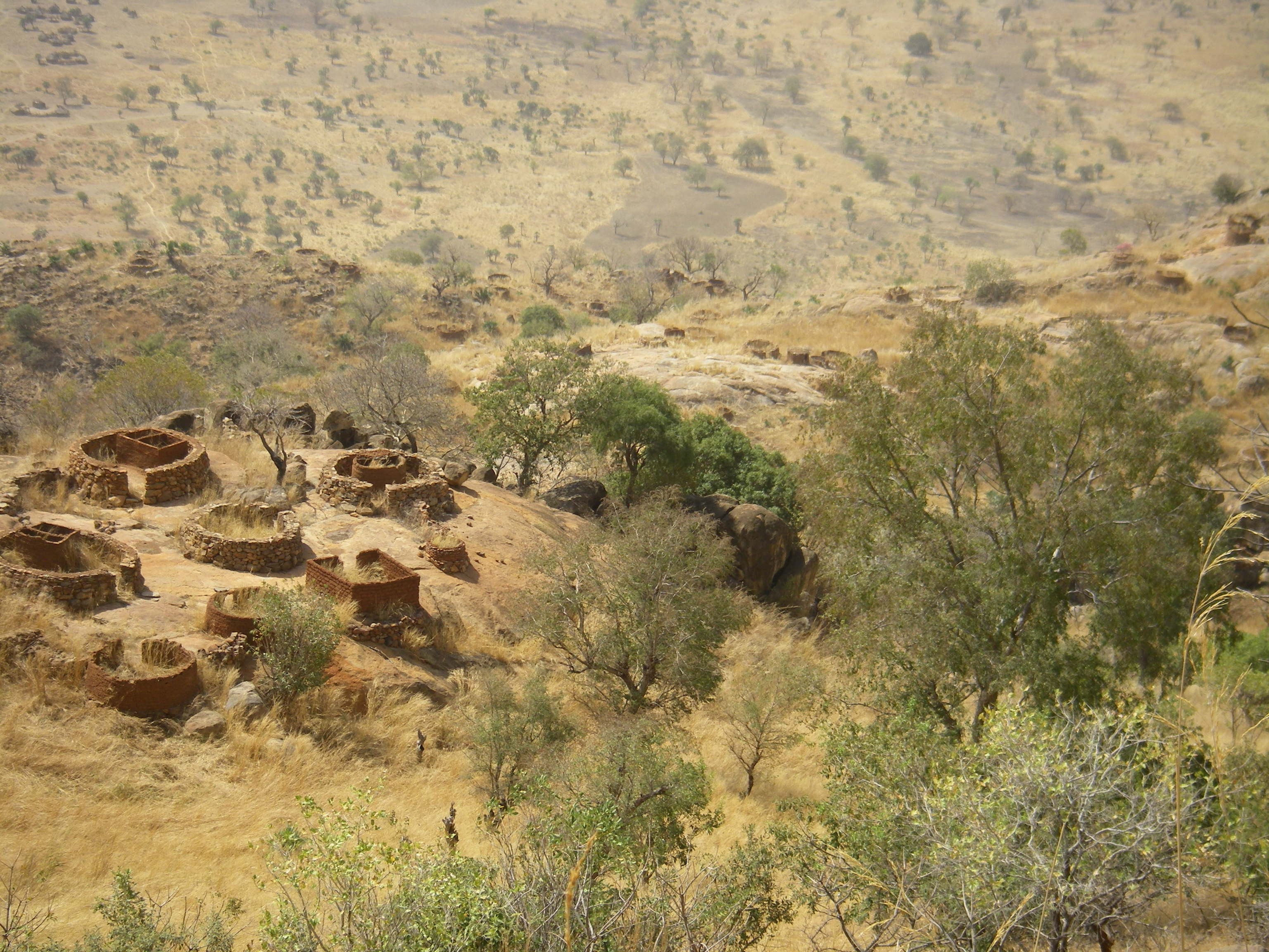 An abandoned Nuba village in the Nuba Mountains — southern Sudan.. Original description: "Toby took me on a hike one day to see some of the abandoned villages from the civil war. People in Nuba would move up into the mountains because it was easier to hide from the militias there. Toby's dear friend Morris lived in a village like this for 8 years, with little food, water, and clothing. It was pretty surreal to see it for myself."